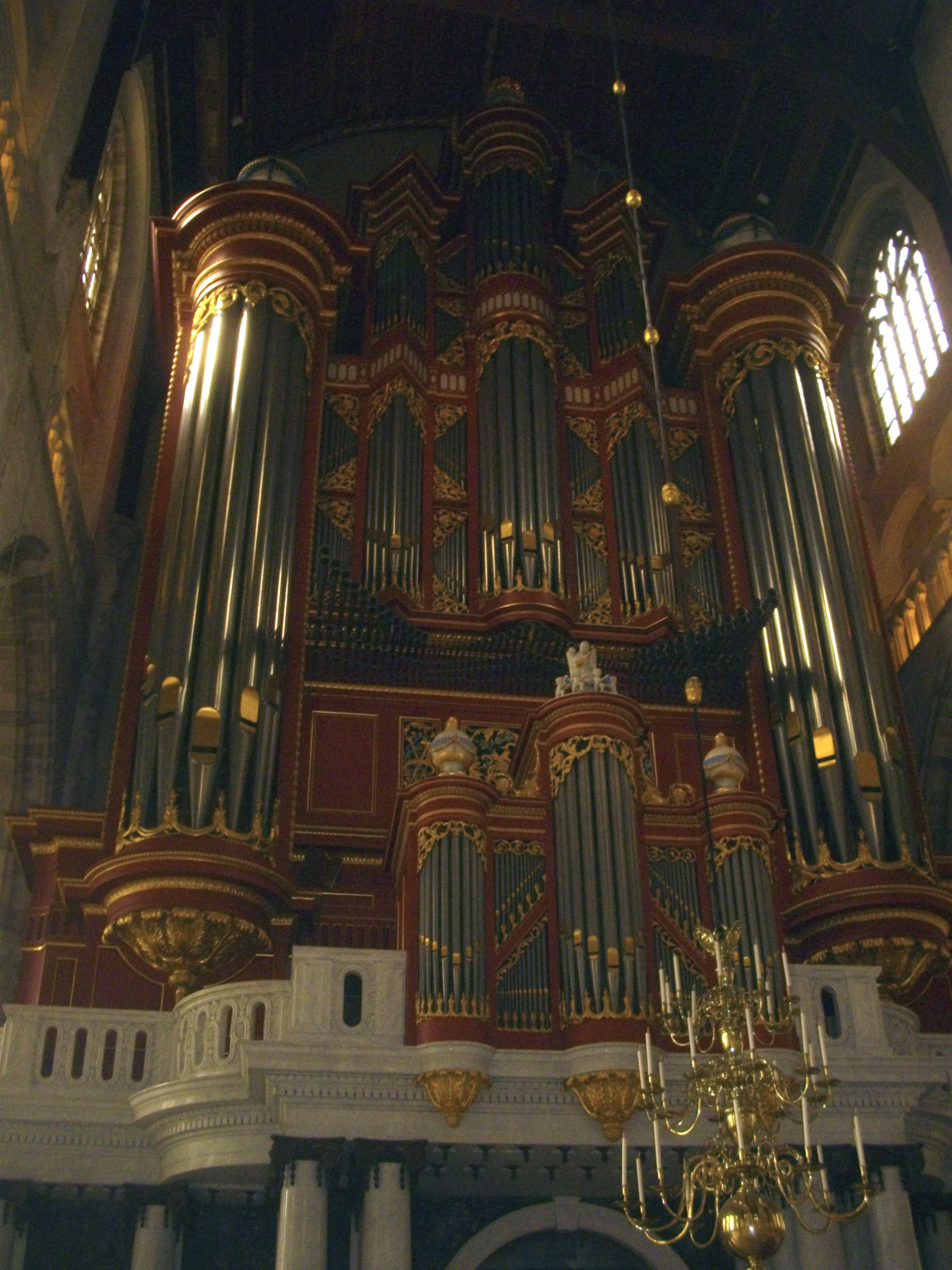 Laurenskerk, Rotterdam, the organ